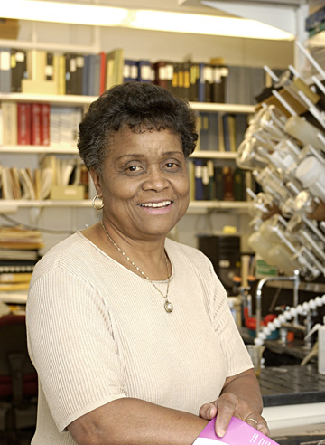 Scientist Ida Stephens Owens in her lab at NIH NICHD